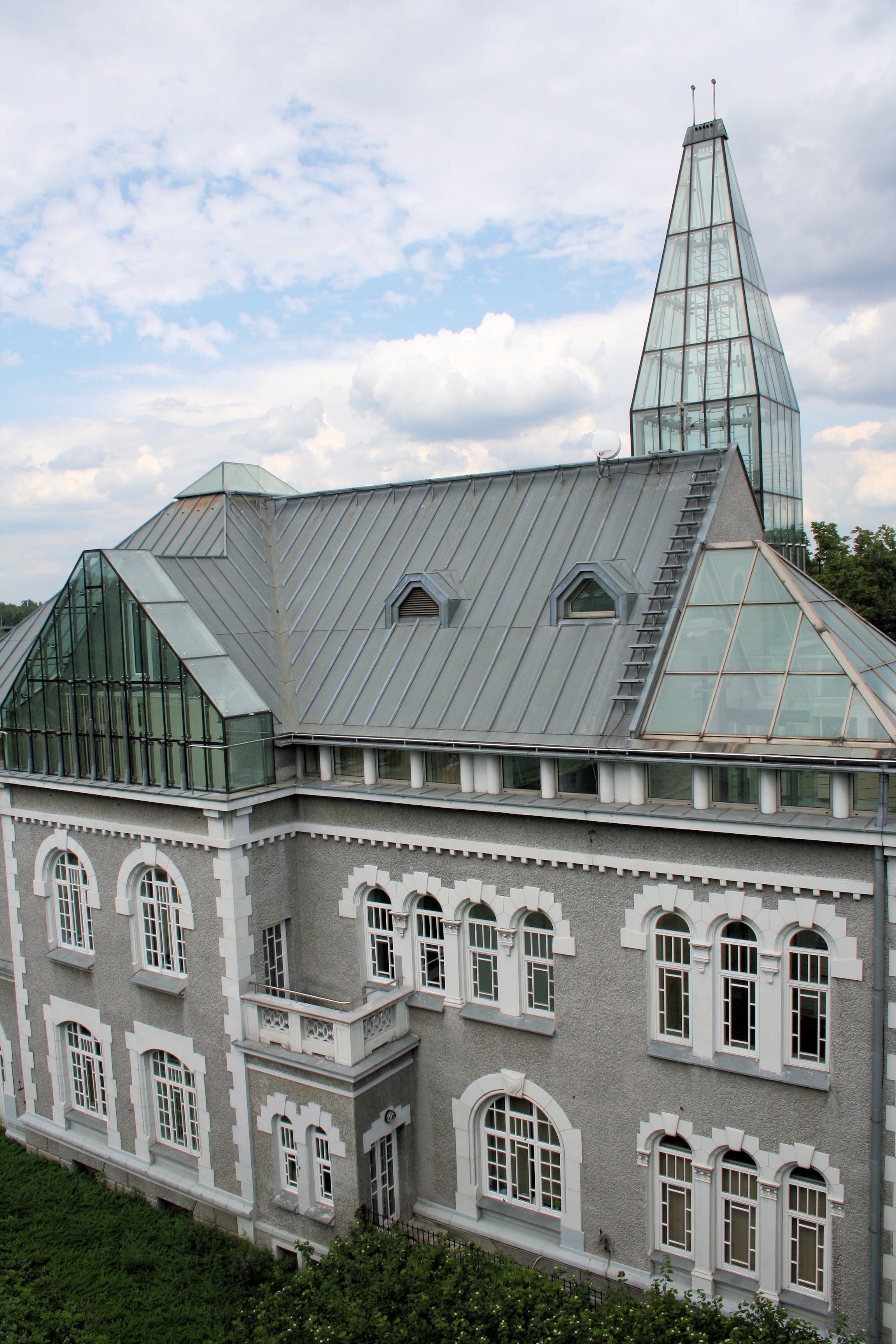 Villa "Szara" in Warsaw, Poland; next to University of Warsaw Library